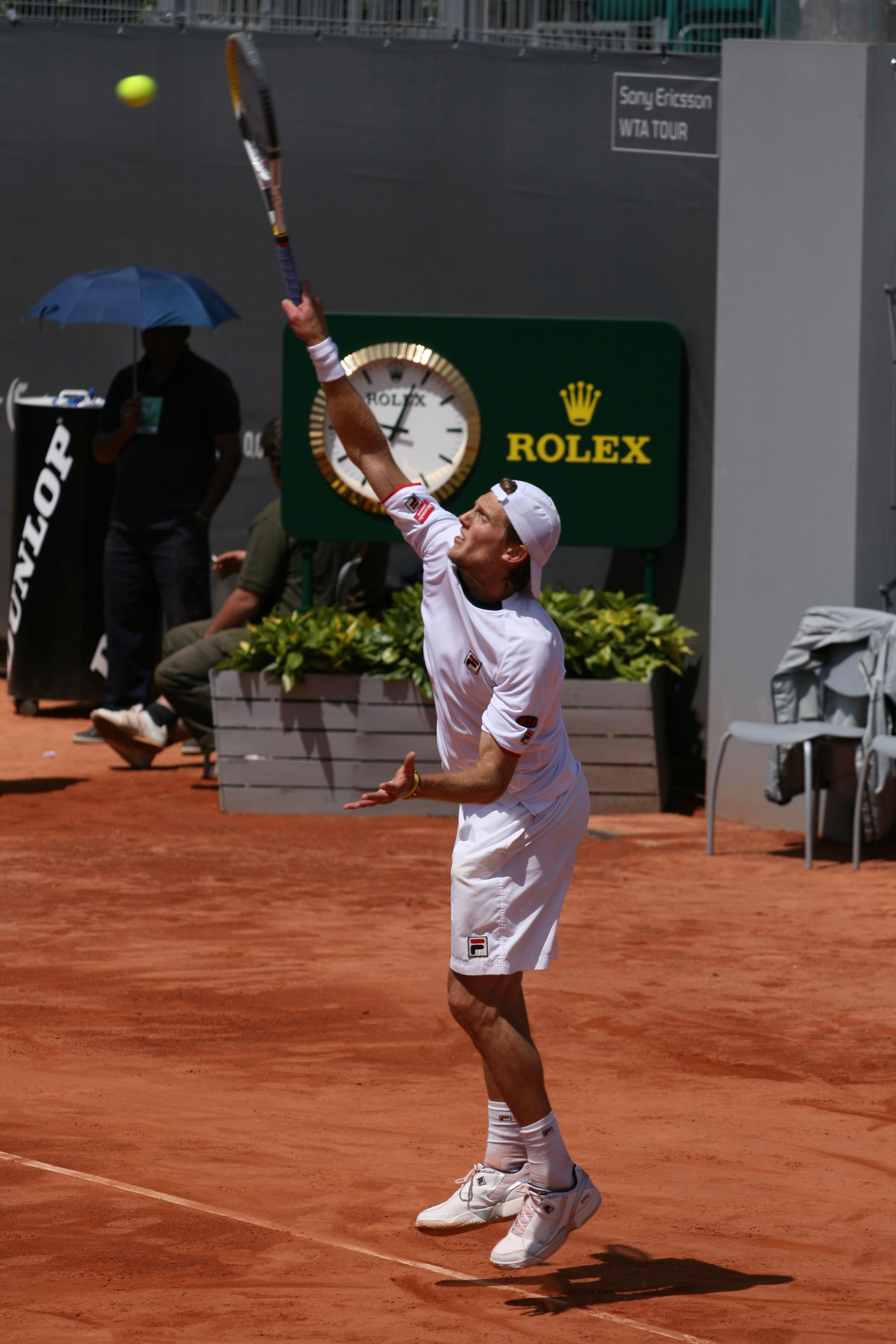 Andreas Seppi against Sam Querrey in the 2009 Mutua Madrileña Madrid Open second round